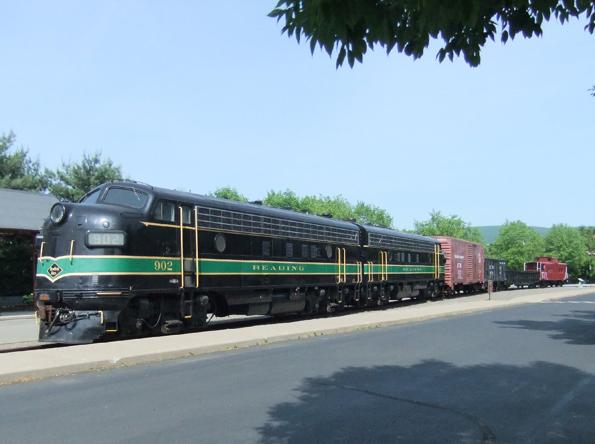 RDG FP-7 902 on Display Track, Steamtown National Historic Site.